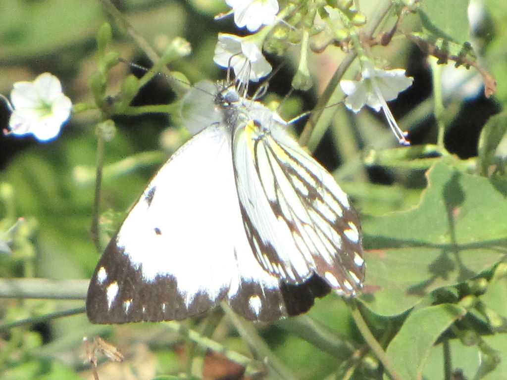 African Common White (Belenois creona), Lake Manyara, Tanzania